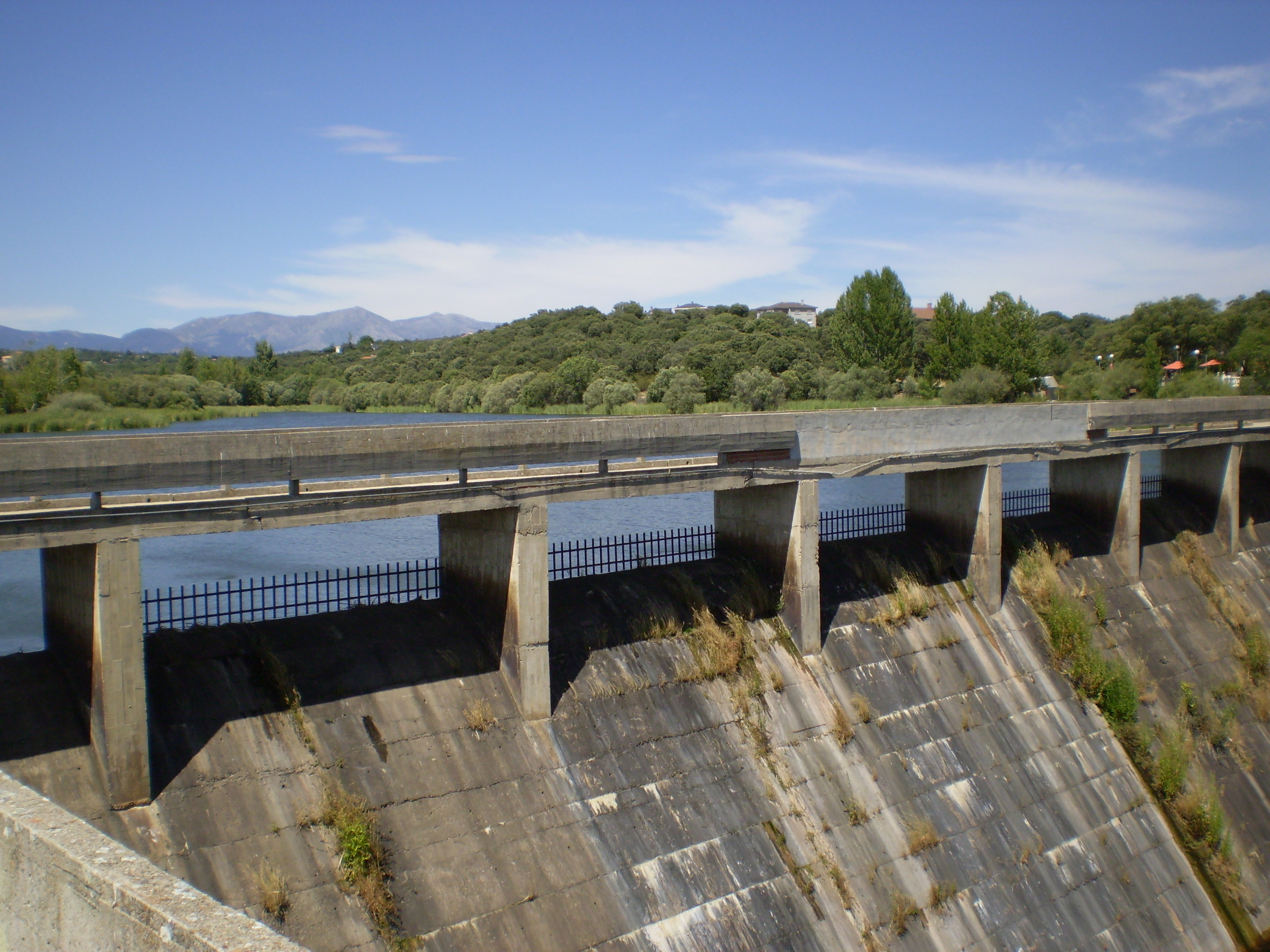 Los Arroyos Reservoir. Community of Madrid, Spain